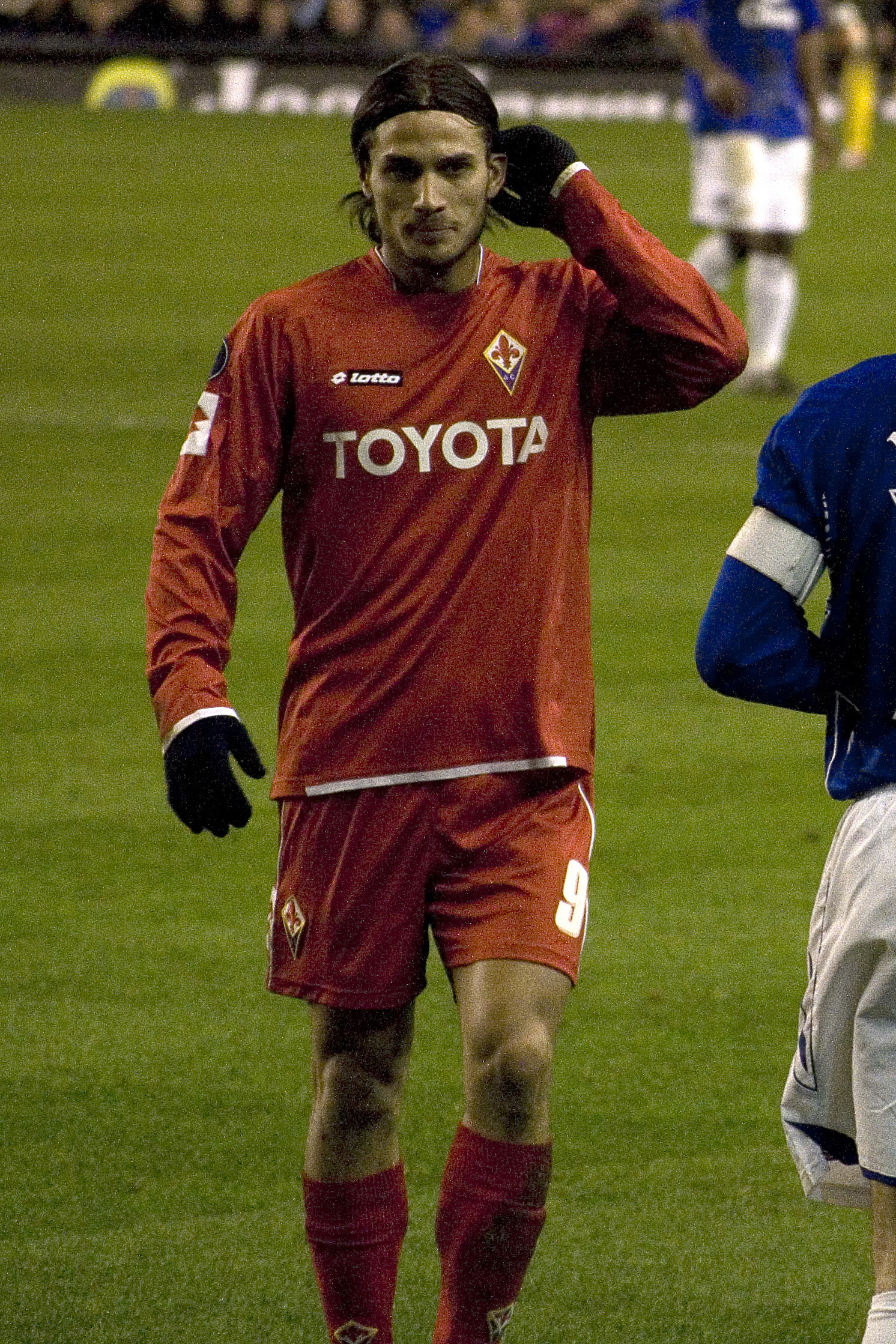 Pablo Daniel Osvaldo of ACF Fiorentian, Phil Neville of Everton